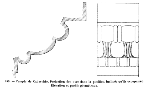 Geometric details of the columns of Kardaki Temple